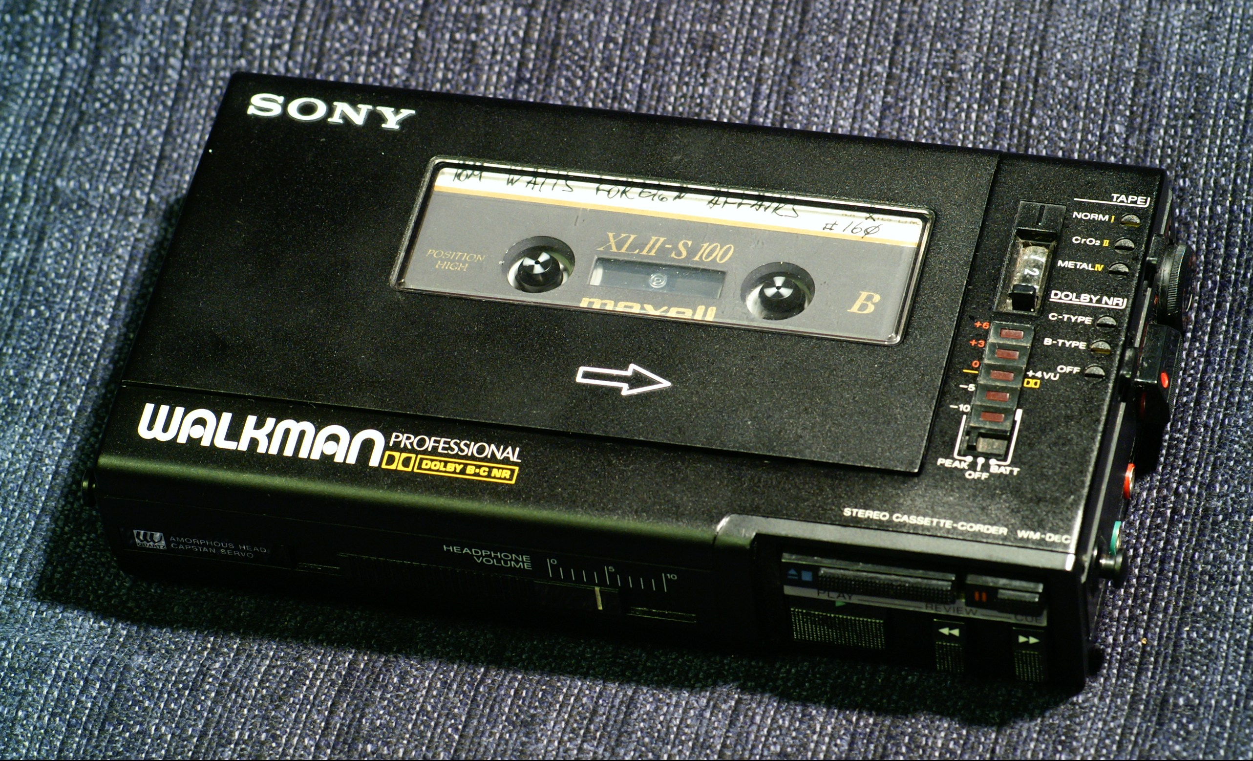 Thebiggestmac 07:48, 29 September 2006 (UTC),SONY WM-D6C Walkman Professional,made the photo myself